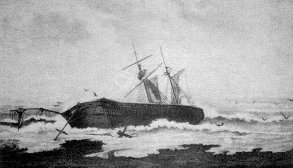 Corvette "Novik", 1863, 38 N, 123 W, near San Francisco